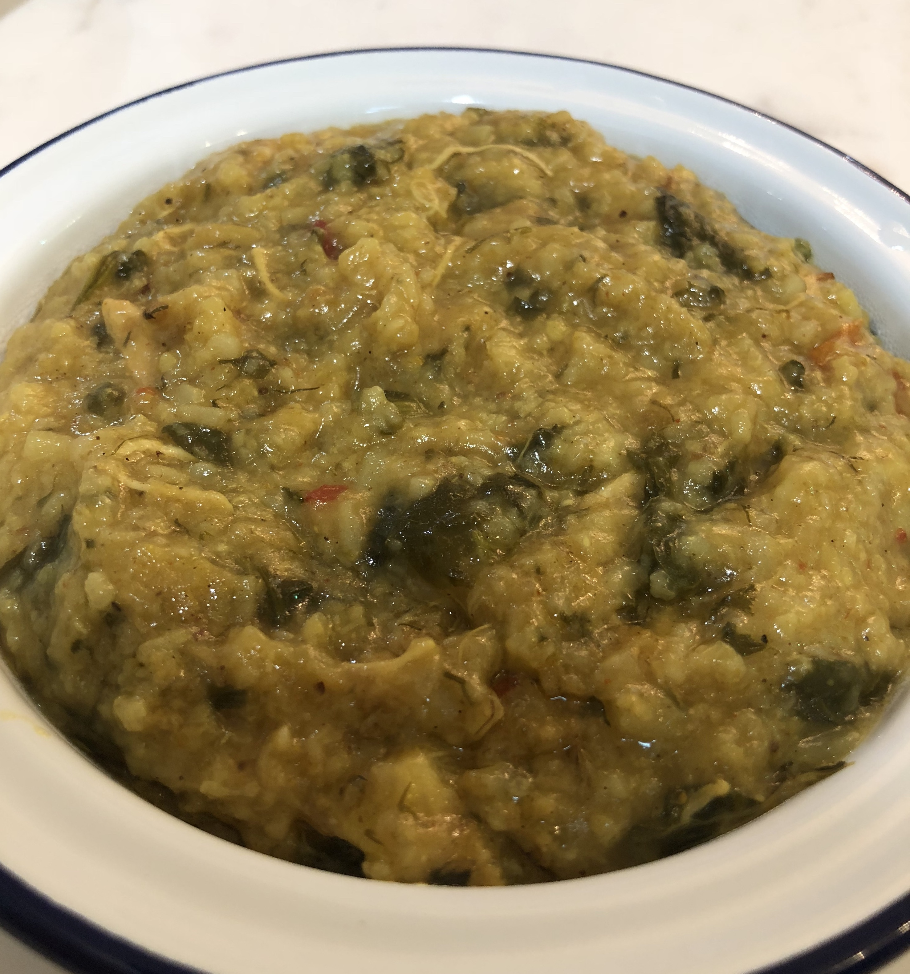 Bulgur with chicken porridge